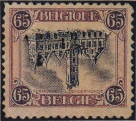 1920 65c Belgium inverted center Dendermonde postage stamp